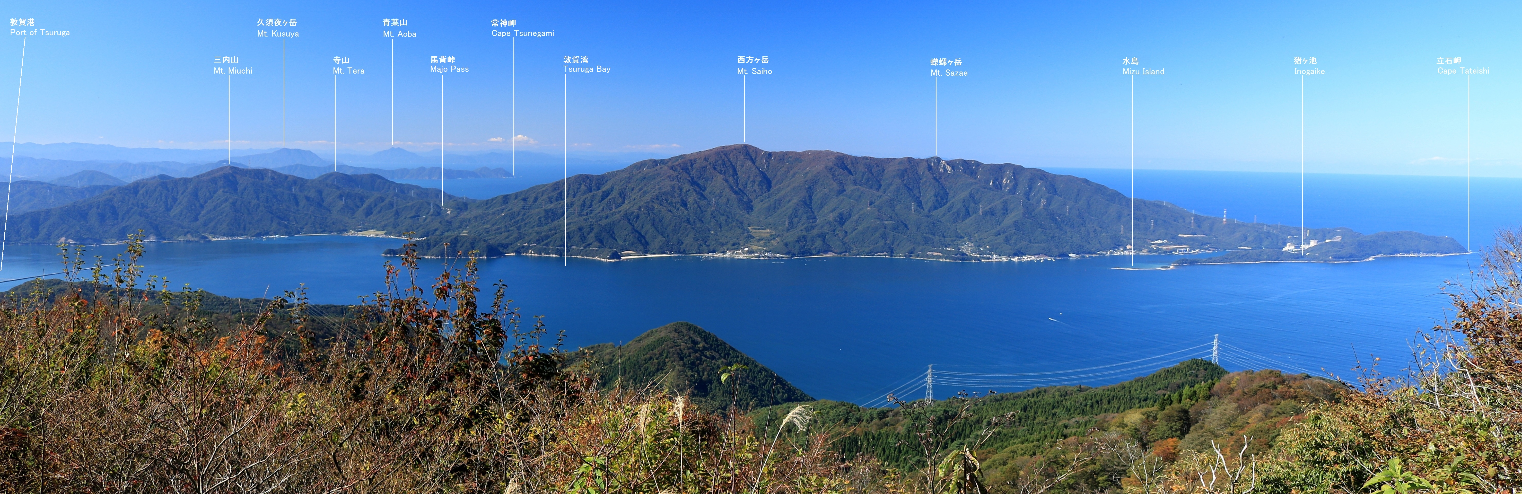 Tsuruga Peninsula and Tsuruga Bay seen from Mount Hachibuse in Fukui prefecture, Japan.